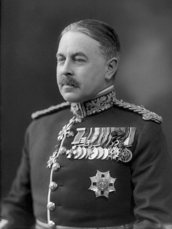 Robert Hutchison, 1st Baron Hutchison of Montrose